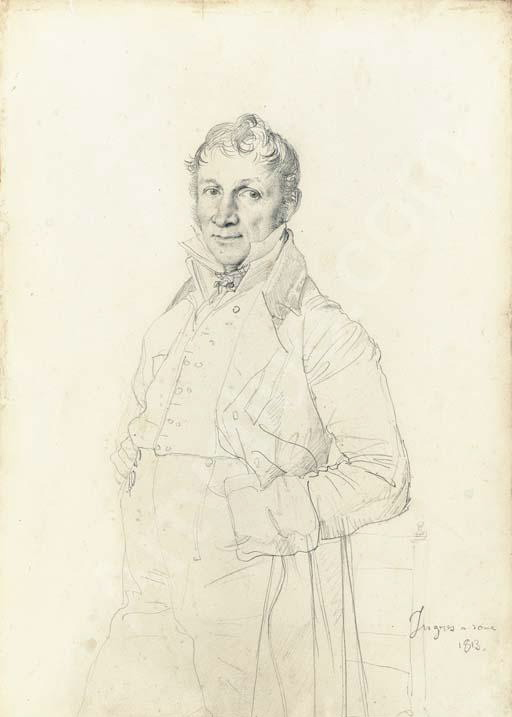 Charles-Bernardin-Ghislain Coppieters Stochove (1774-1864)